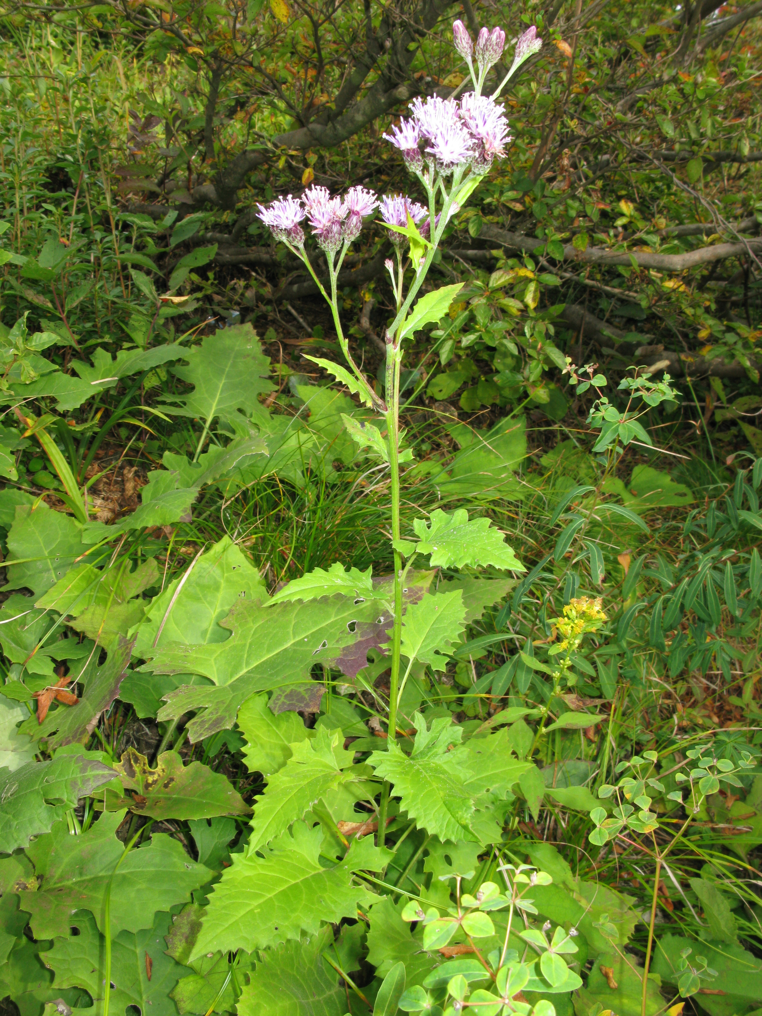 Saussurea ussuriensis, Aizu area, Fukushima pref., Japan